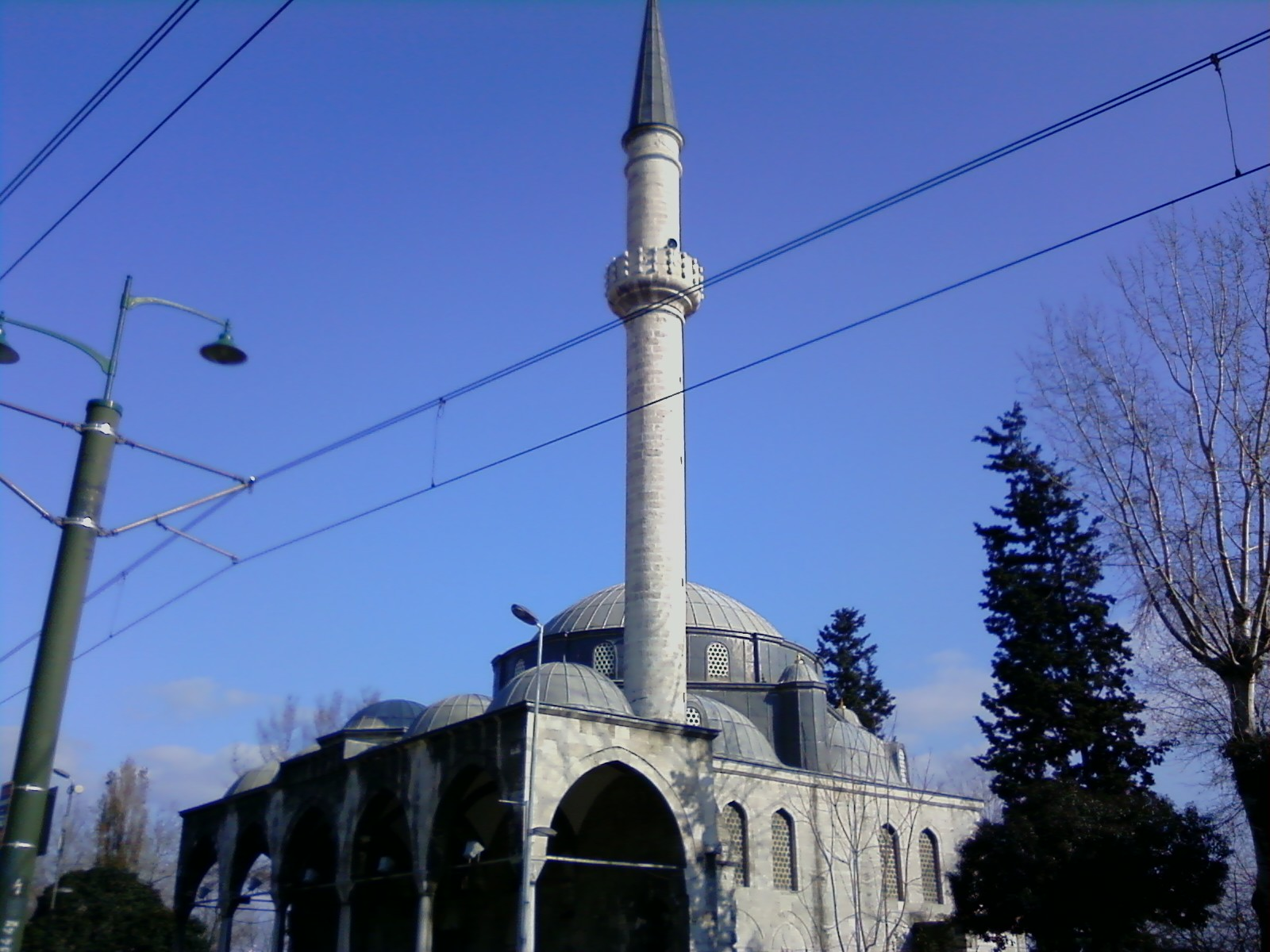 Exterior view of the Fındıklı Molla Çelebi Mosque in Istanbul, Turkey.